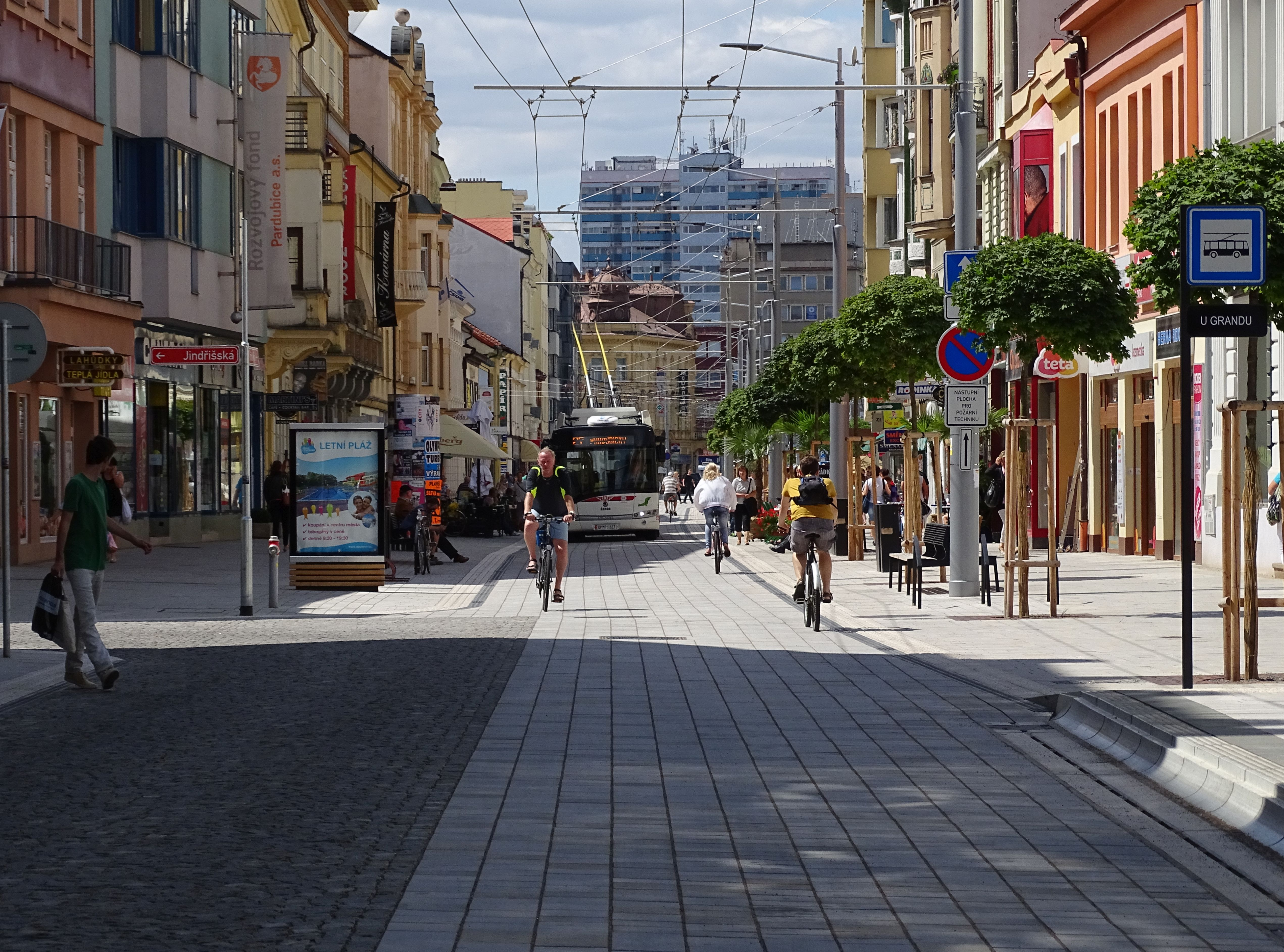 Pardubice I-Zelené Předměstí, Pardubice District, Pardubice Region, Czech Republic. Třída Míru, from Náměstí Republiky.